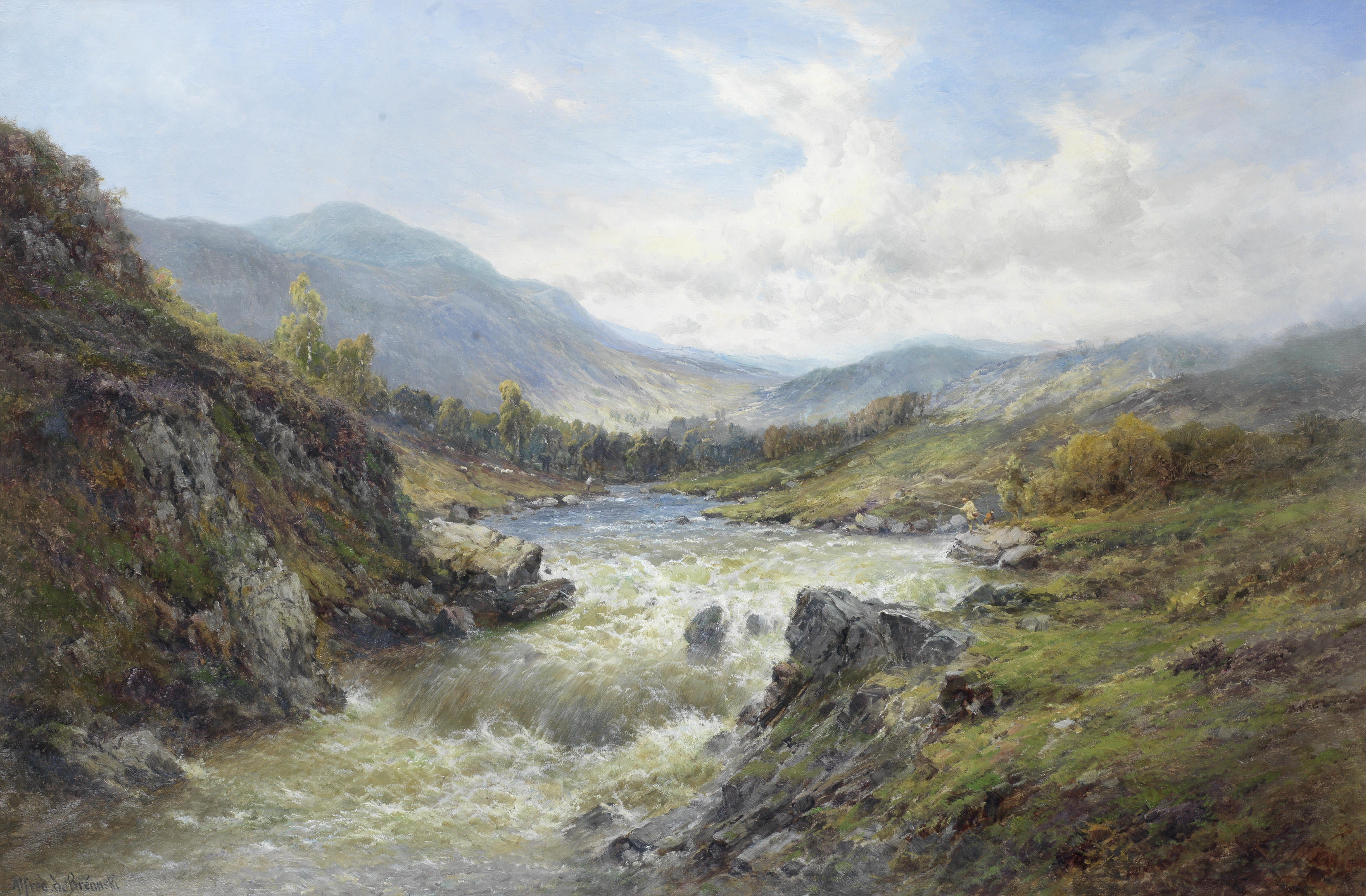 Alfred de Bréanski sr. Falls of the Tay